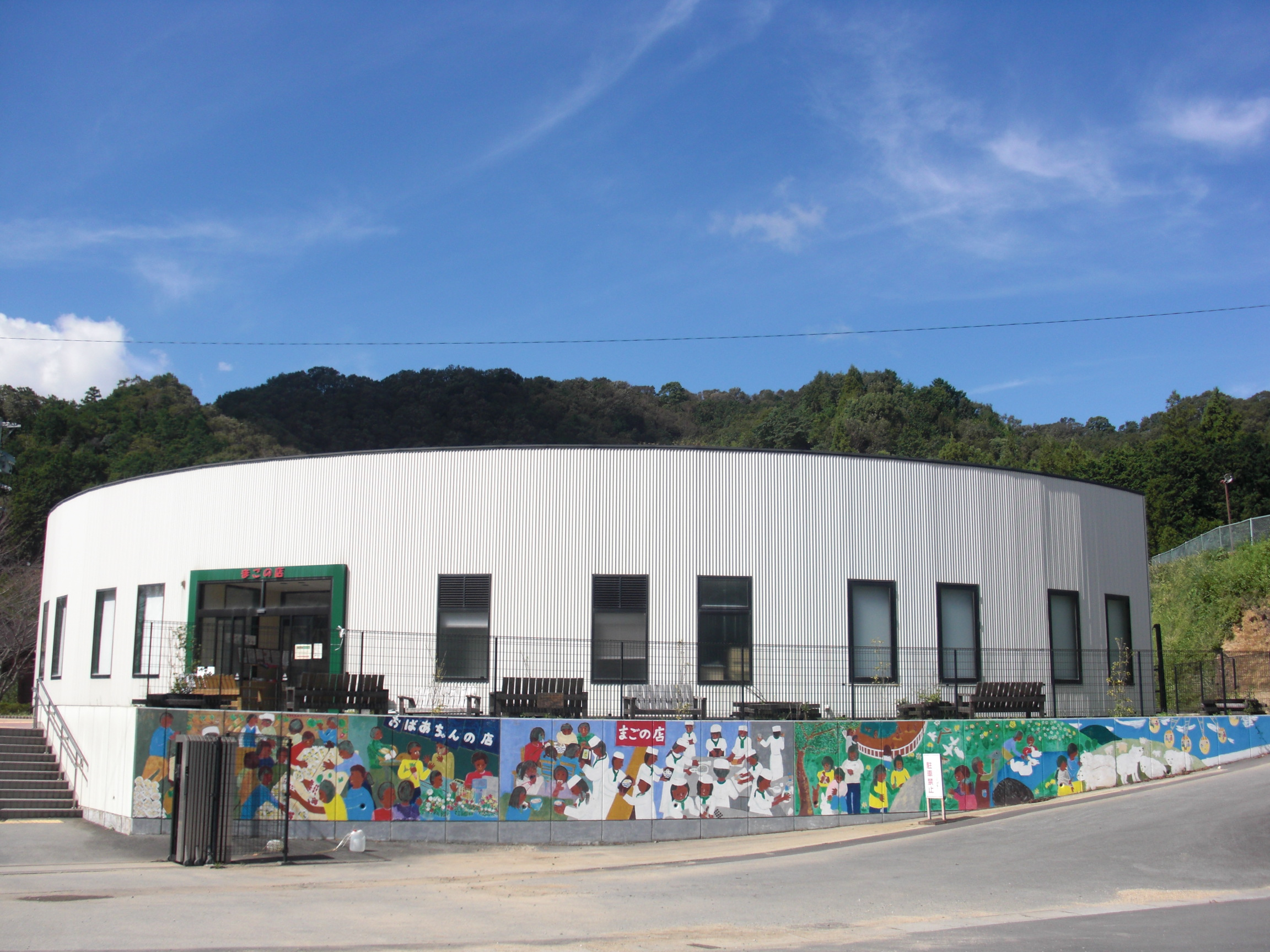 This is the Mago no Mise or the Grandchildren's Shop, which is located in Taki, Mie, Japan. This shop is a restaurant running by senior high school students.